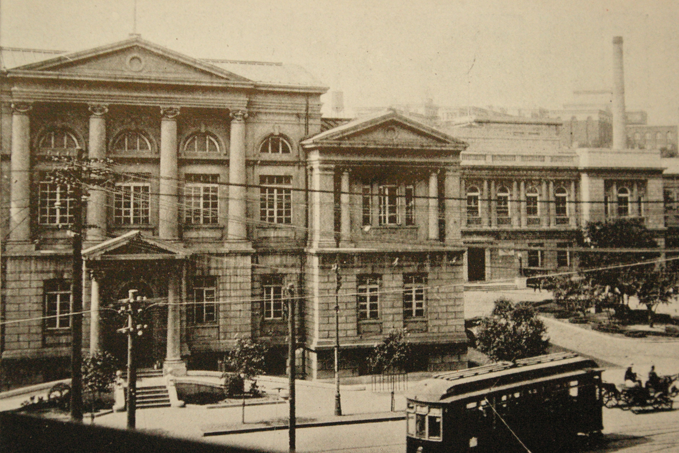 The corporate headquarters of South Manchuria Railway Co., around 1940.